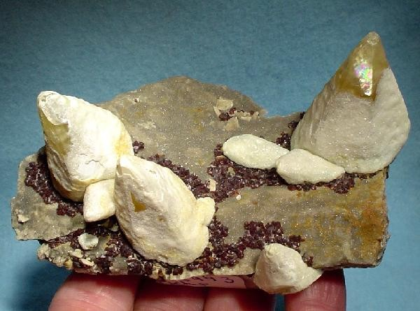 Hydrozincite, Calcite, Sphalerite Locality: Picher Field, Tri-State District, Ottawa County, Oklahoma, USA (Locality at ) Size: 10.5 x 6.7 x 6.0 cm. A large plate from the famous Picher, Oklahoma Field of the Tri-State District. Three, large, to 4.5 cm, hydrozincite-coated gemmy, amber calcite scalenohedrons dramatically project upward, like snow-wreathed mountains from a flat plain of silicified limestone, which is very attractively complimented with smaller coated calcite crystals and gemmy, ruby-jack sphalerite crystals. Ex. George Feist Collection, #2993.